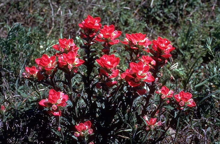 Castilleja indivisa Clarence A. Rechenthin. USDA-NRCS PLANTS Database. Courtesy of USDA NRCS Texas State Office.